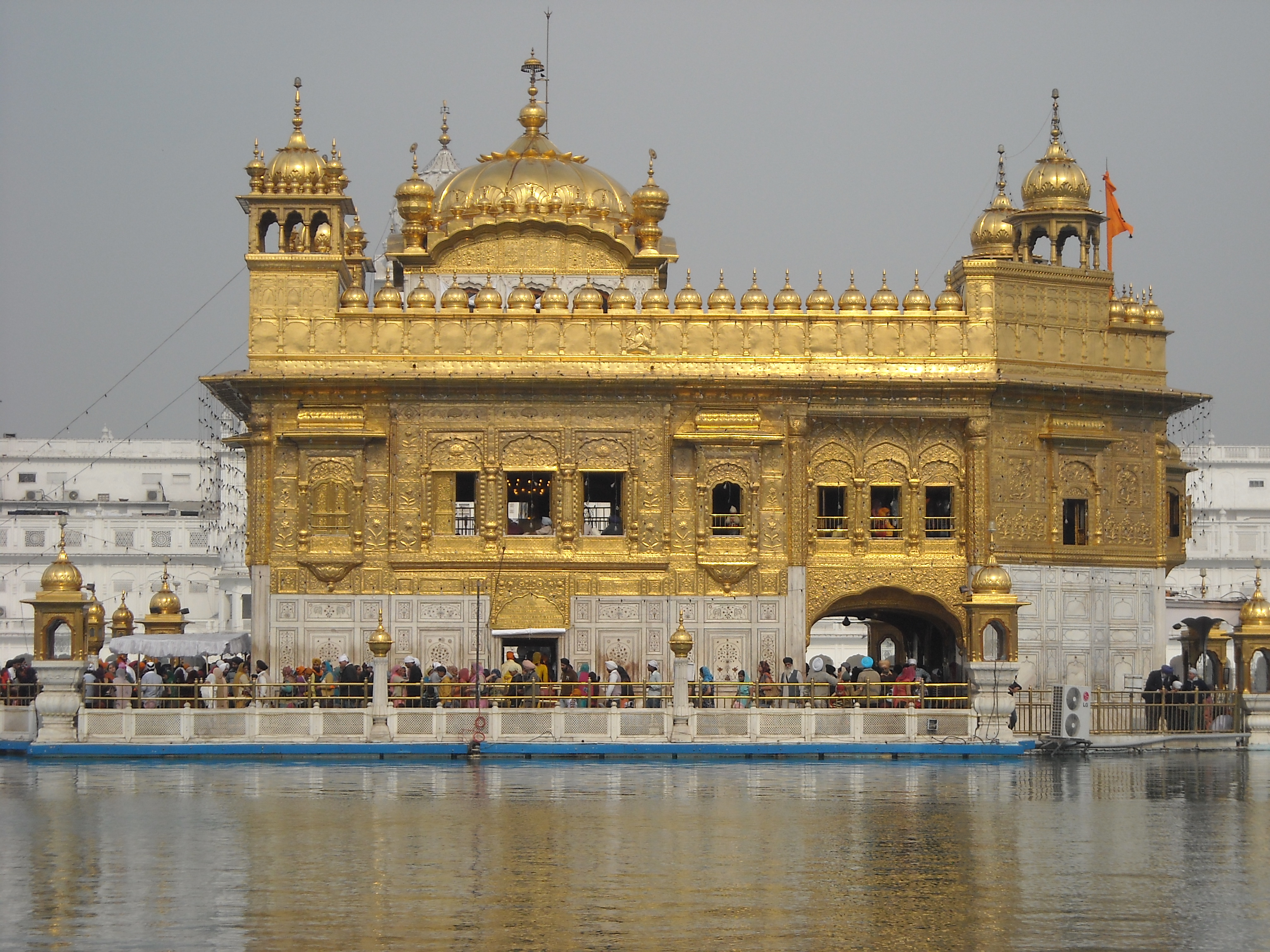 Golden Temple, Amritsar